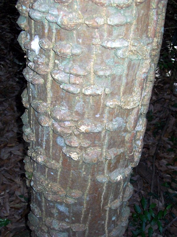 The bark of a certain Erythrina species called "Croftby". Photographed in West Pennant Hills, Sydney, 2010.